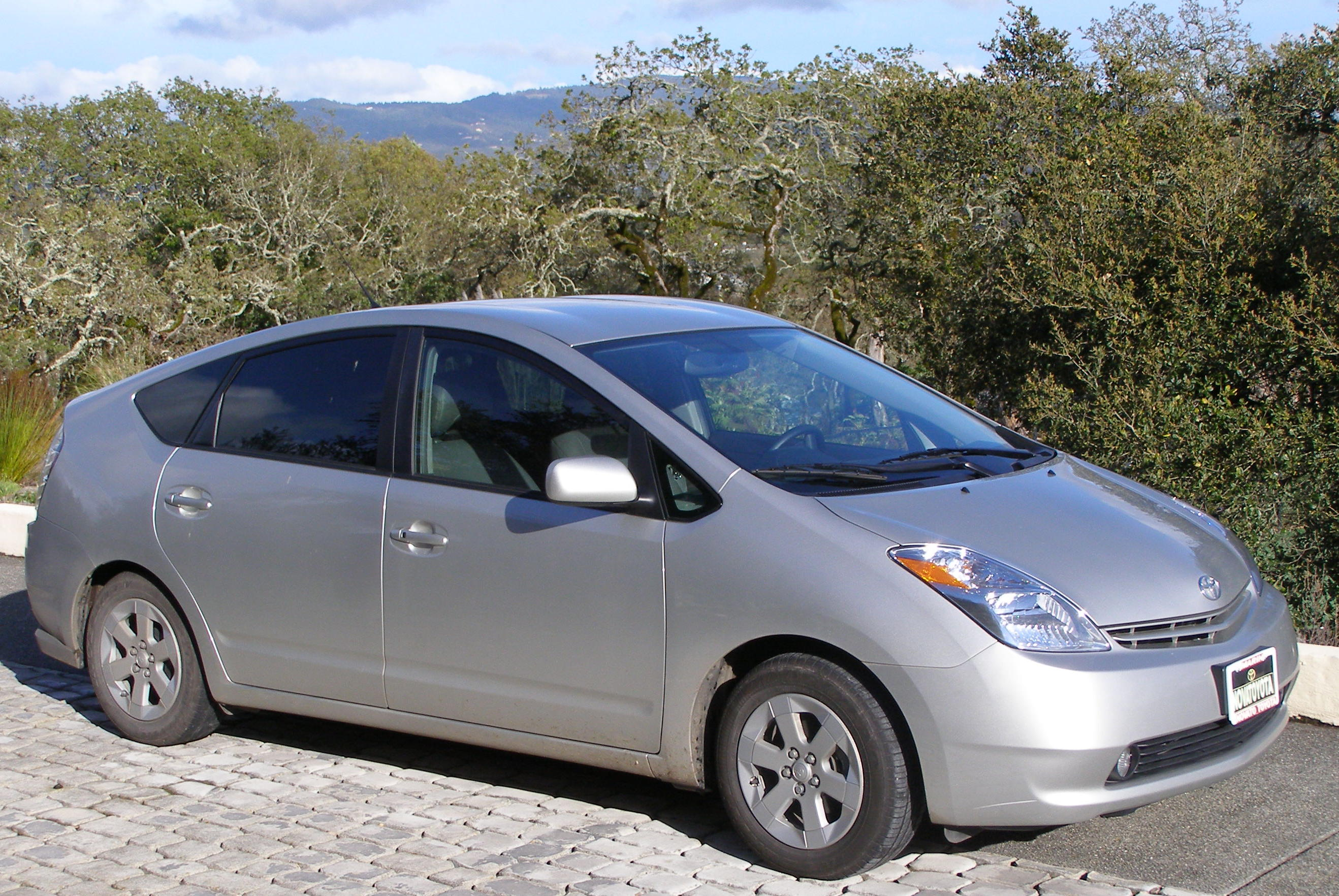 I took this photo and i release all rights